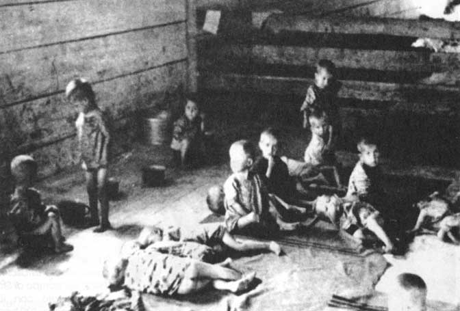 Children inmates in the NDH in World War II